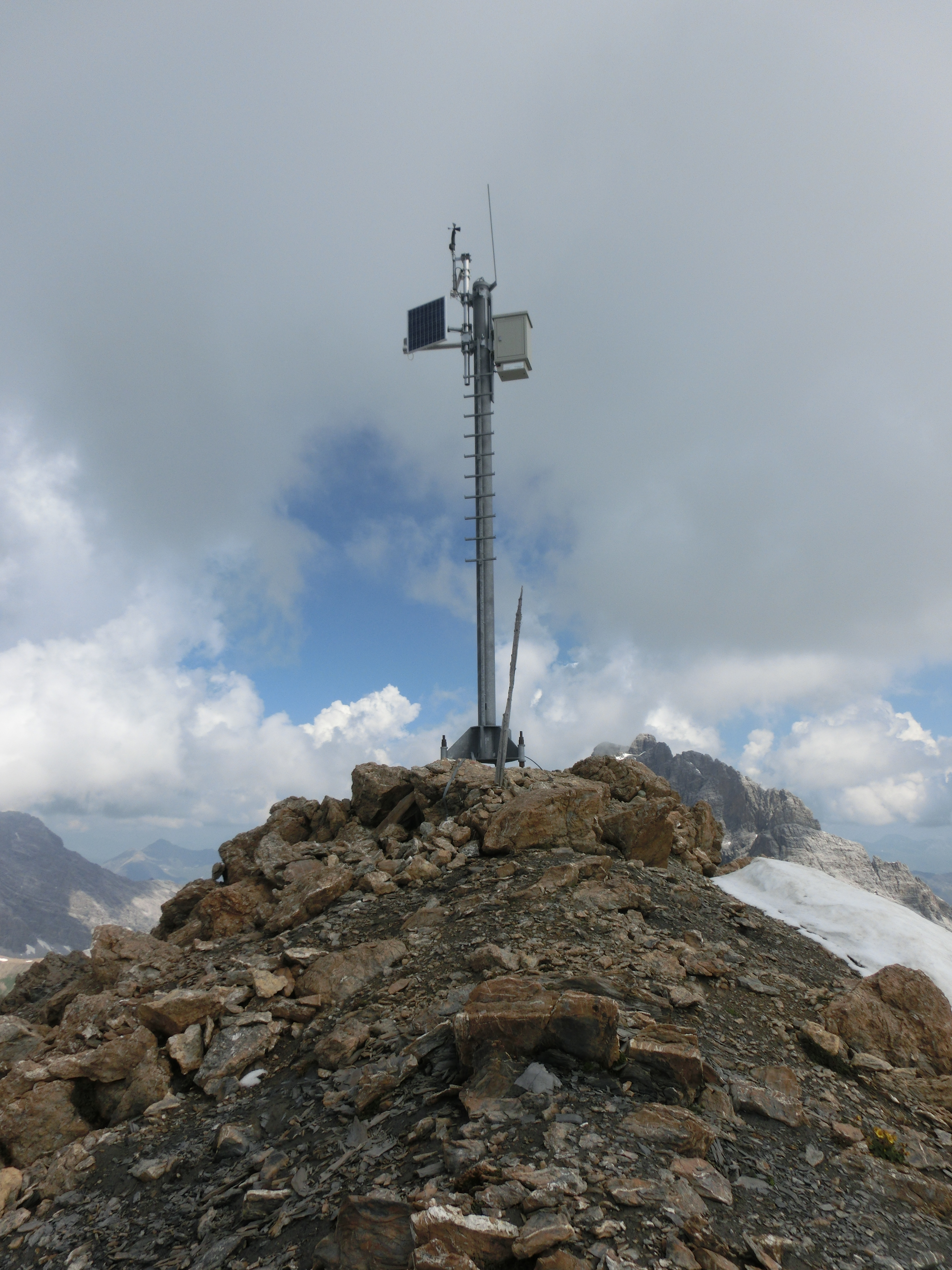 Wind station on Piz Salteras, Tinizong-Rona, Bergün/Bravuogn, Grisons, Switzerland Rumantsch: Staziun da vent segl Piz Salteras, Tinizong-Rona, Bergün/Bravuogn, Grischun, Svizra